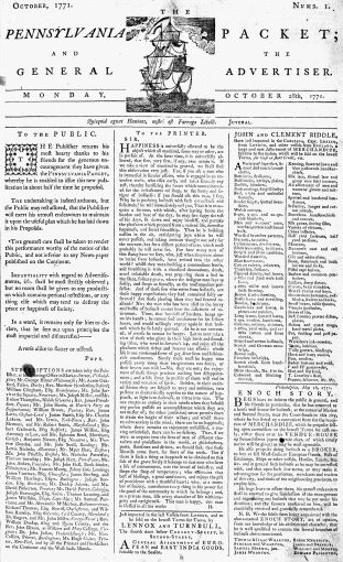 Pennsylvania Packet; and the General Advertiser; Date: 10-28-1771